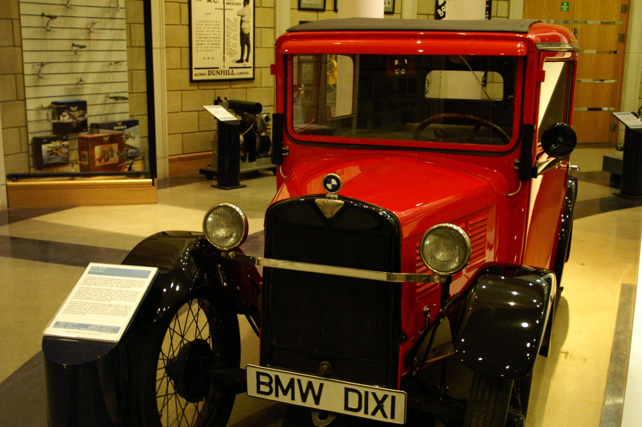 Heritage Motor Centre, Gaydon, Warwickshire Austin Seven built under licence